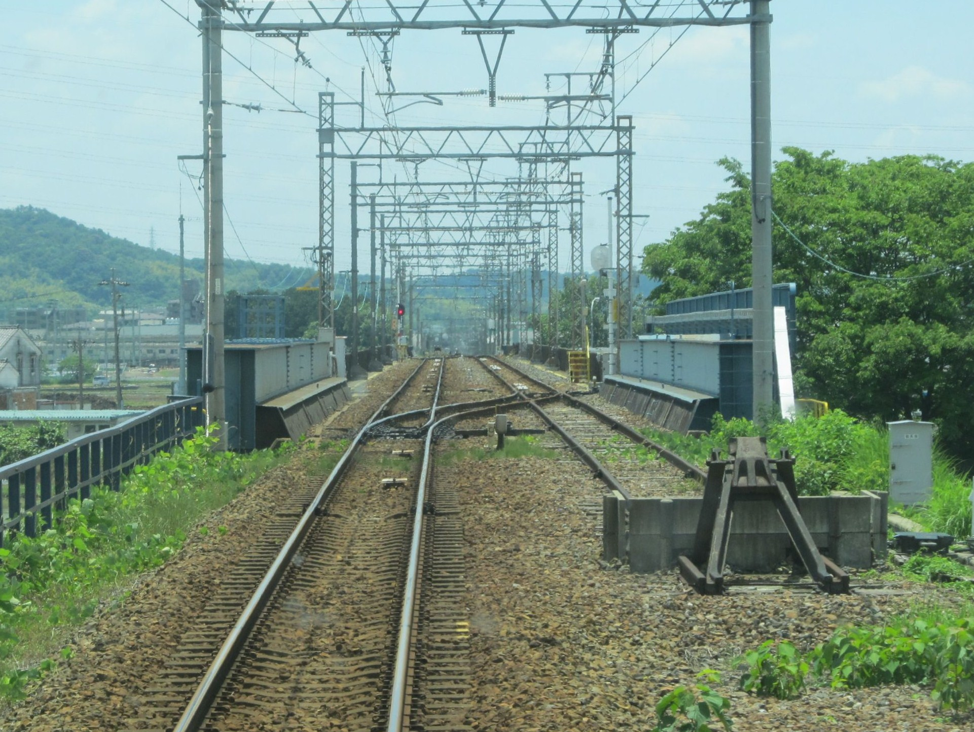 Nagoya Railroad Komaki Line Gorōmaru Signal Box